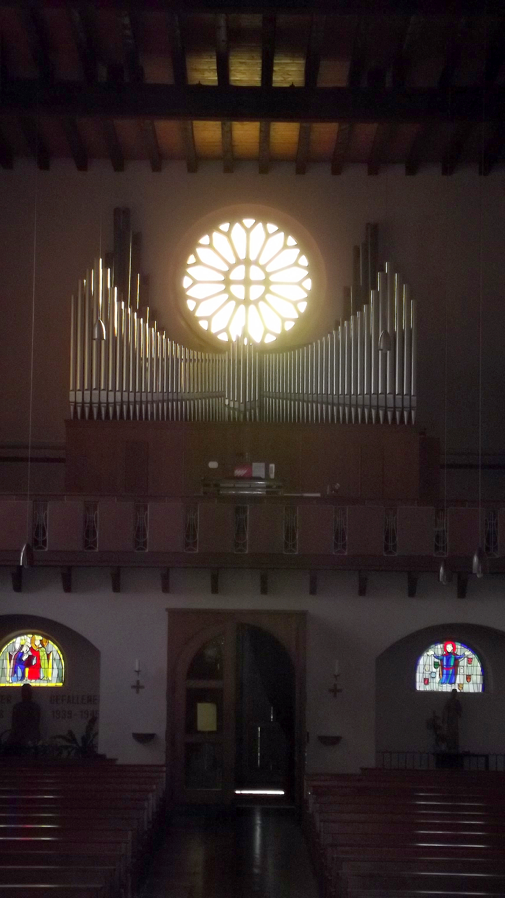 Interior of the roman catholic church in Baltersweiler, Saarland